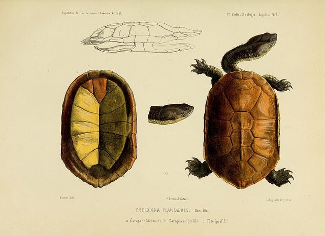 Drawings from original description of a junior synonym of H. maximiliani, Chelidae, Testudines.